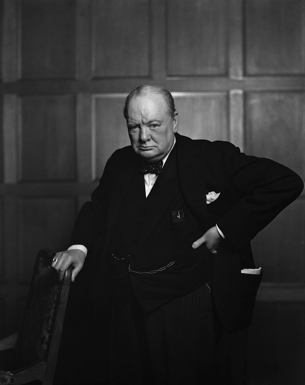 Title / Titre : Sir Winston Churchill Creator(s) / Créateur(s) : Yousuf Karsh Date(s) : December 1941 / décembre 1941 Reference No. / Numéro de référence : MIKAN 3224823 Location / Lieu : Ottawa, Ontario, Canada Credit / Mention de source : Yousuf Karsh. Library and Archives Canada, e002280370 / Yousuf Karsh. Bibliothèque et Archives e002280370